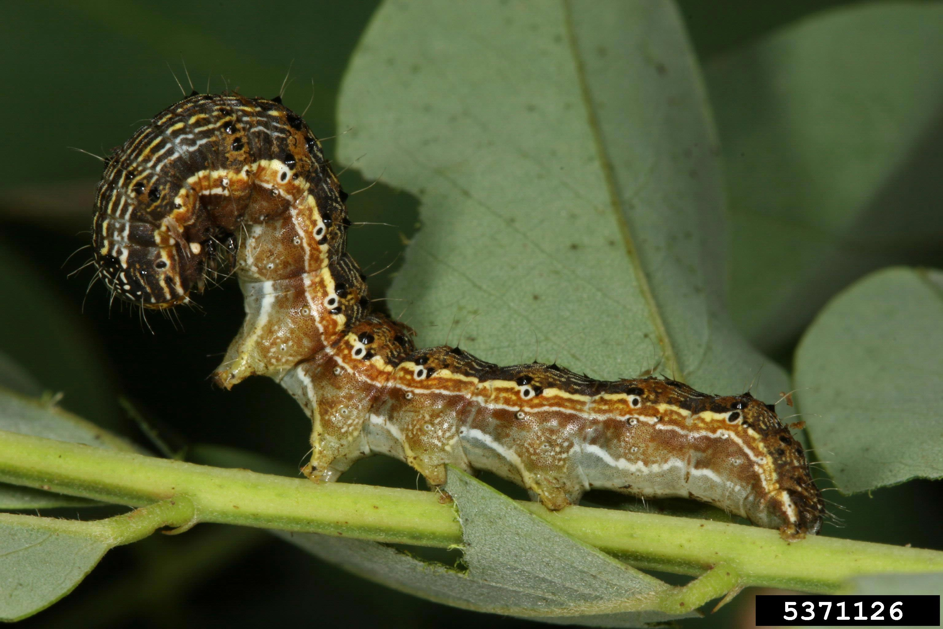 Caterpillar of Helicoverpa armigera